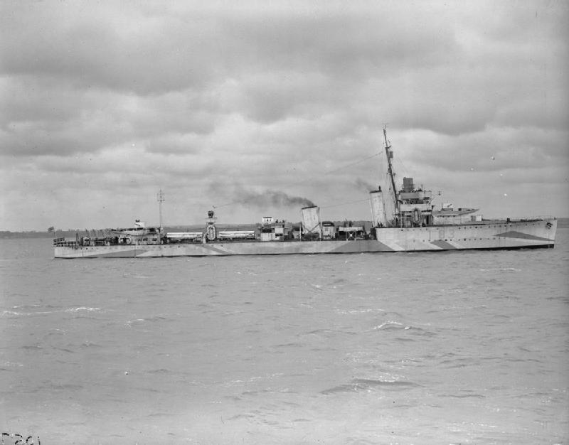 Photograph of British destroyer leader HMS Broke.